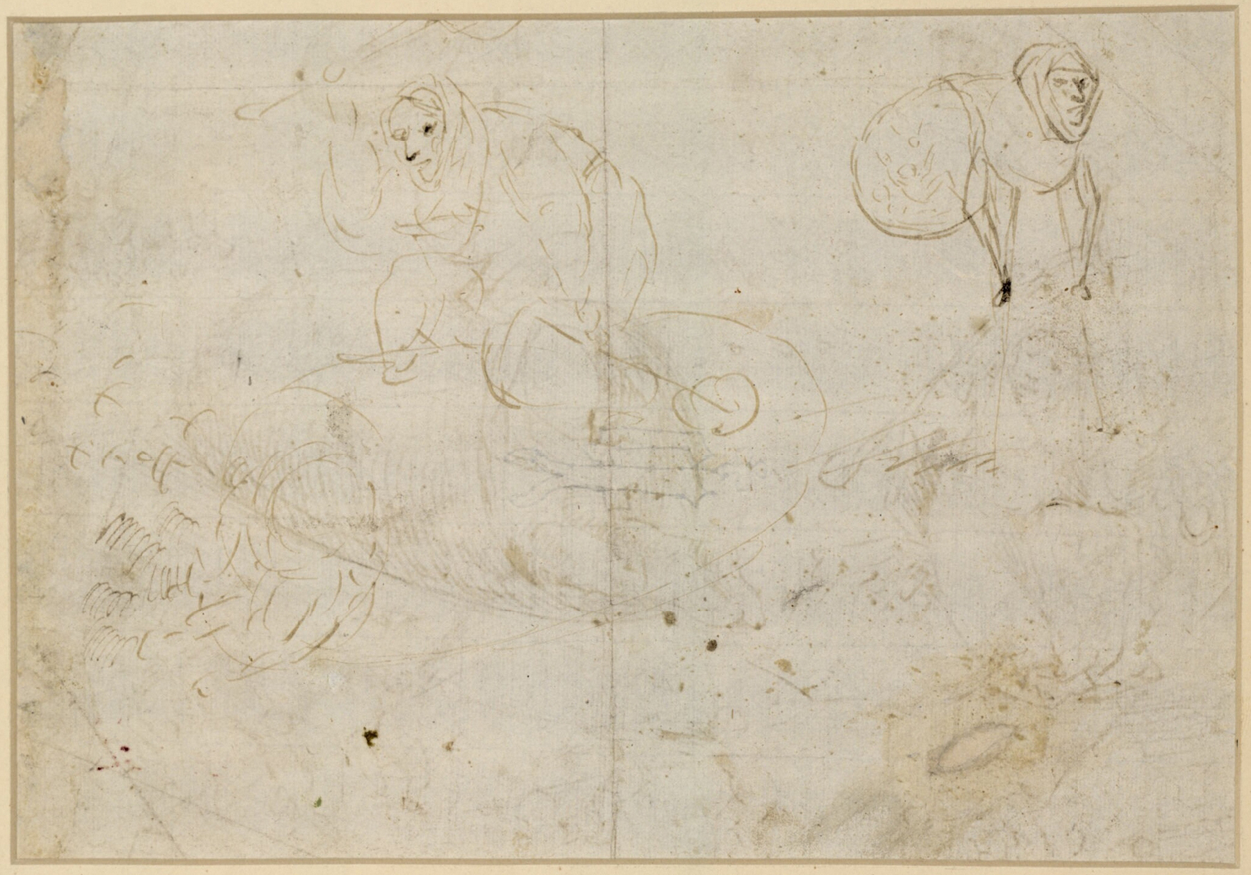 Reverse of a two-sided drawing. For the front, see File:Beehive and witches.jpg.